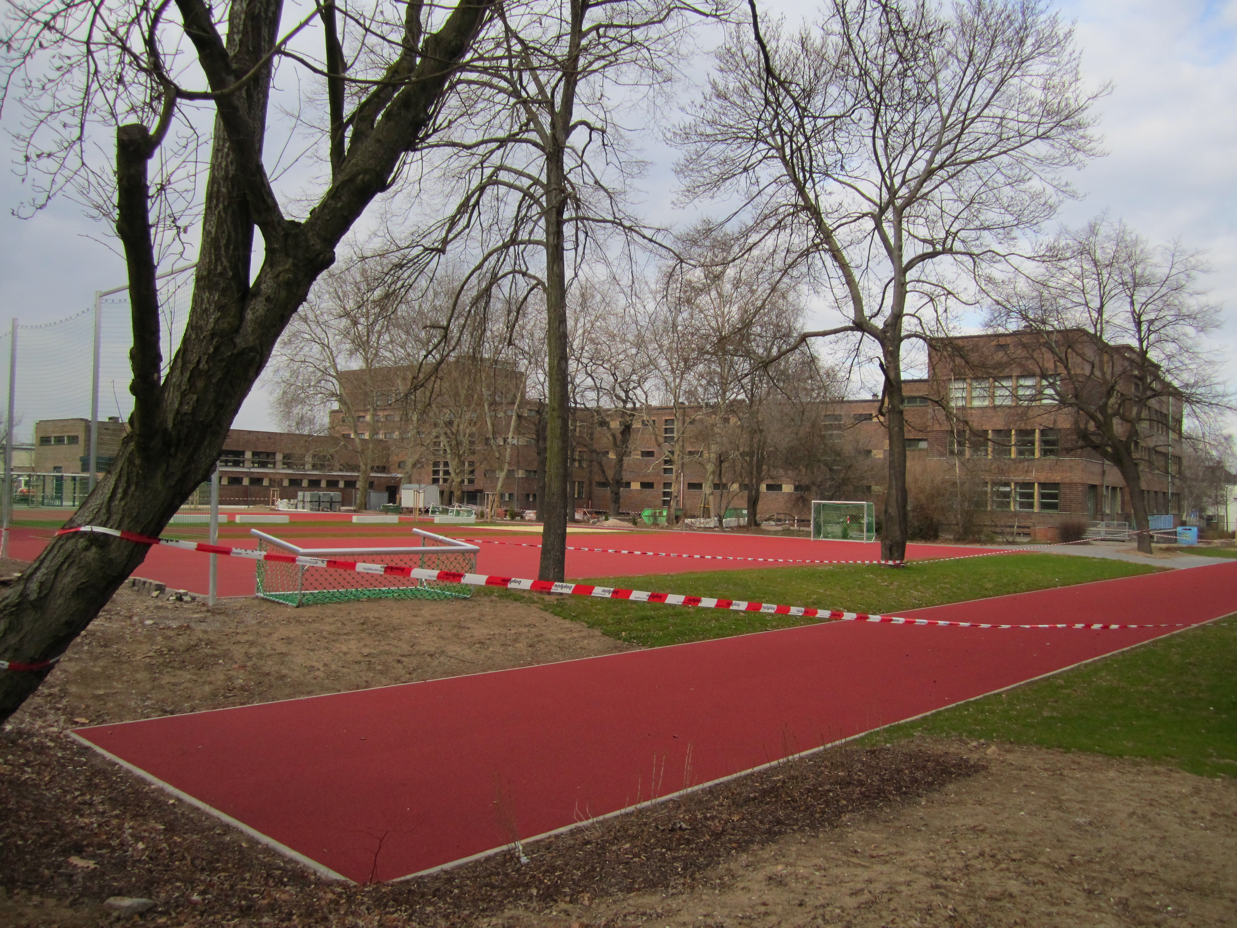 "Pestalozzi" school in Zwickau, Saxony, Germany. First saxon school building in functionalist architecture style, 1929.